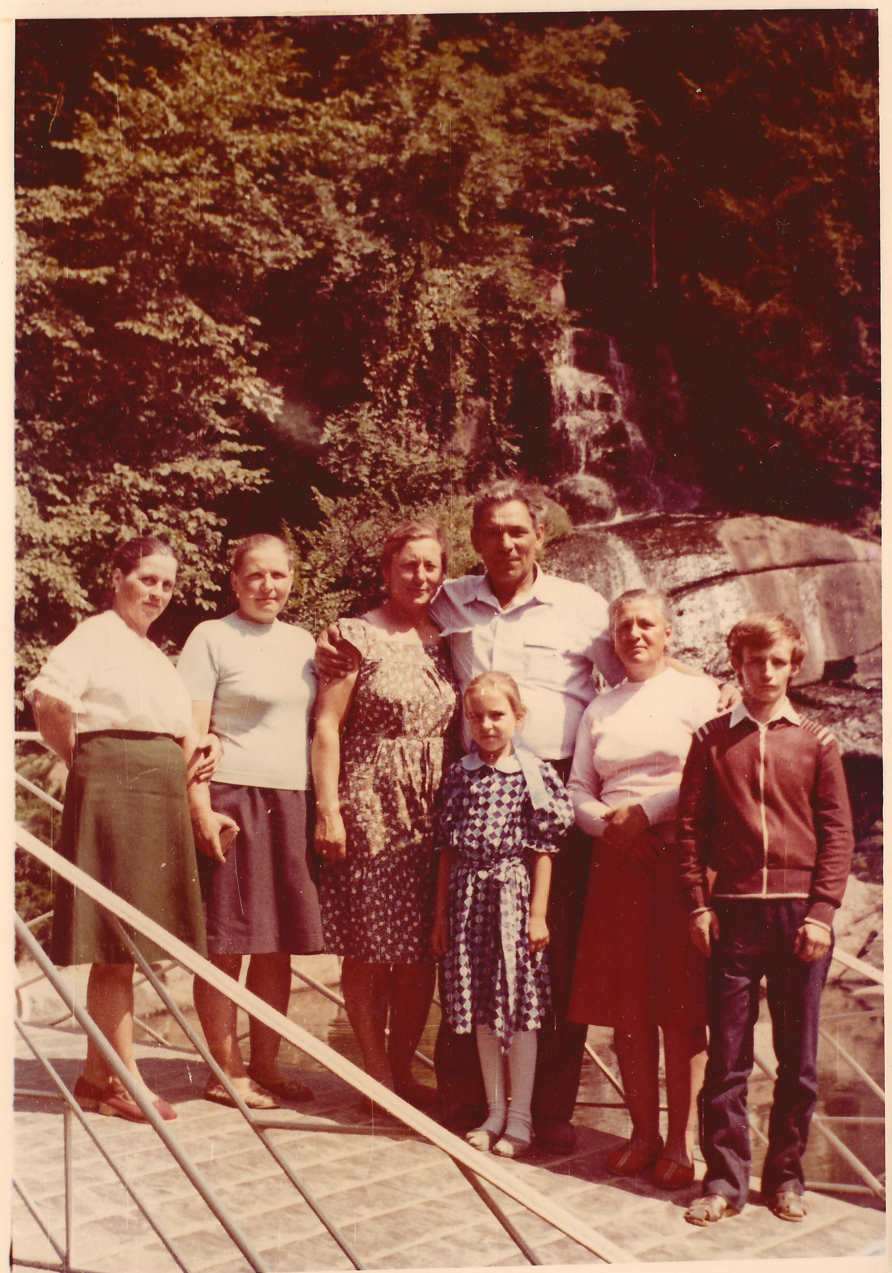 Передова ланка на екскурсії в Софіївському парку в Умані